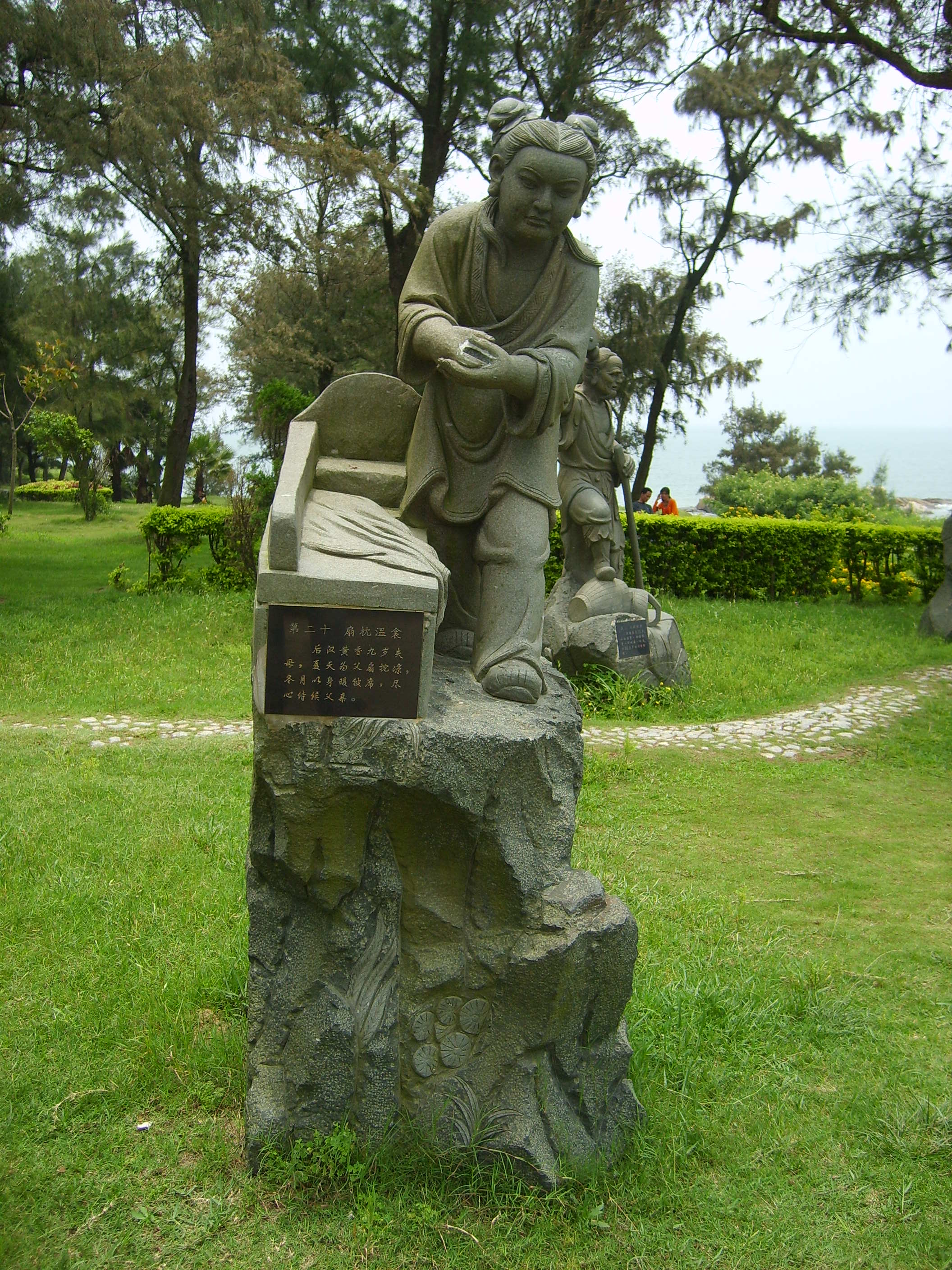 The Twenty-four Filial Exemplars - No. 20